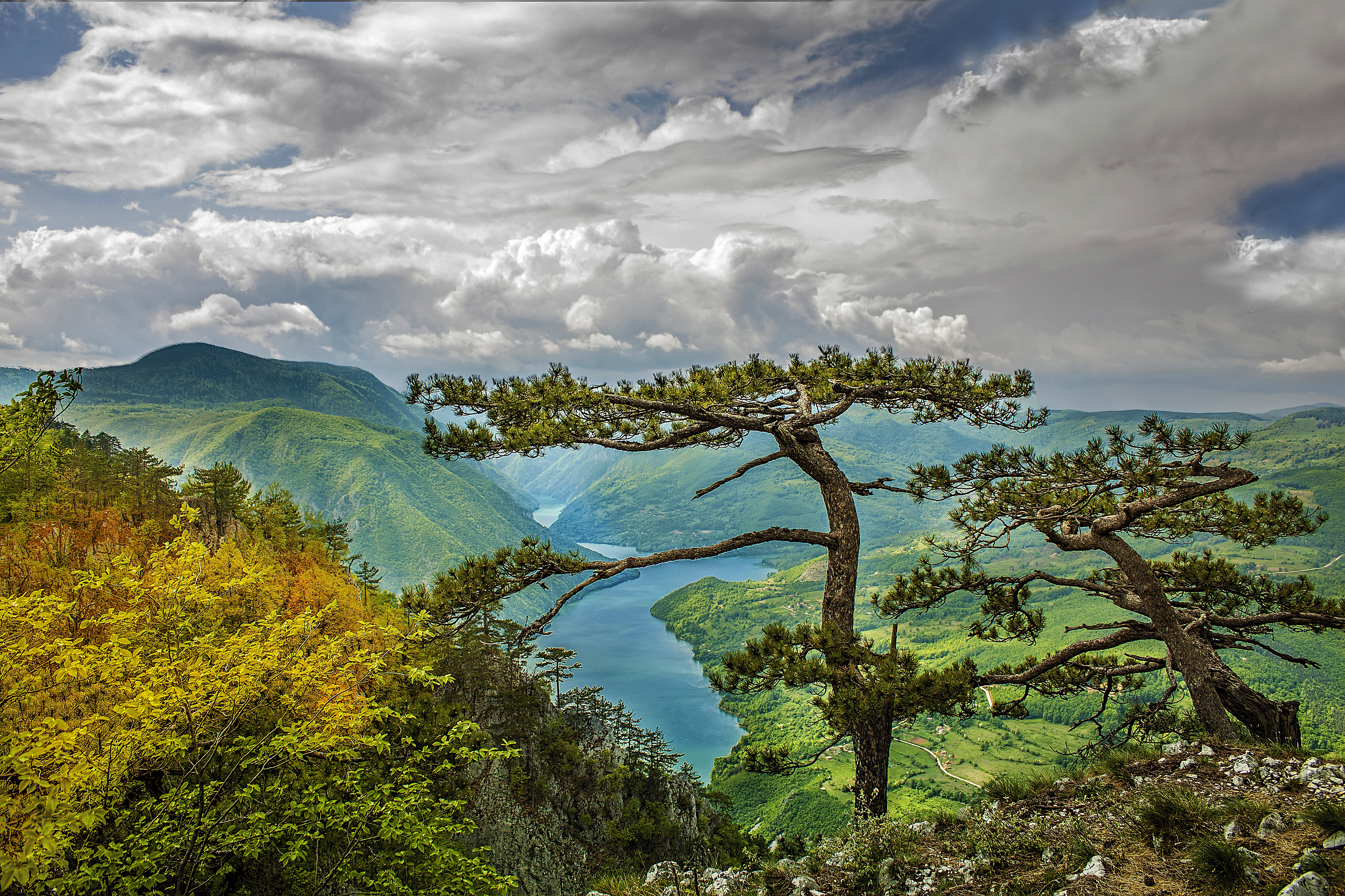 Tara is a mountain located in western Serbia. It is part of Dinaric Alps and stands at 1,000-1,500 metres above sea level. The mountain's slopes are clad in dense forests with numerous high-altitude clearings and meadows, steep cliffs, deep ravines carved by the nearby Drina River and many karst, or limestone caves. The mountain is a popular tourist centre. Tara's national park encompasses a large part of the mountain. The highest peak is Zborište, at 1,544 m.